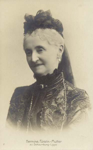 Hermine, Princess of Waldeck-Pyrmont (1827-1910) (spouse of Fürst Adolf I zu Schaumburg-Lippe (1817-1893)